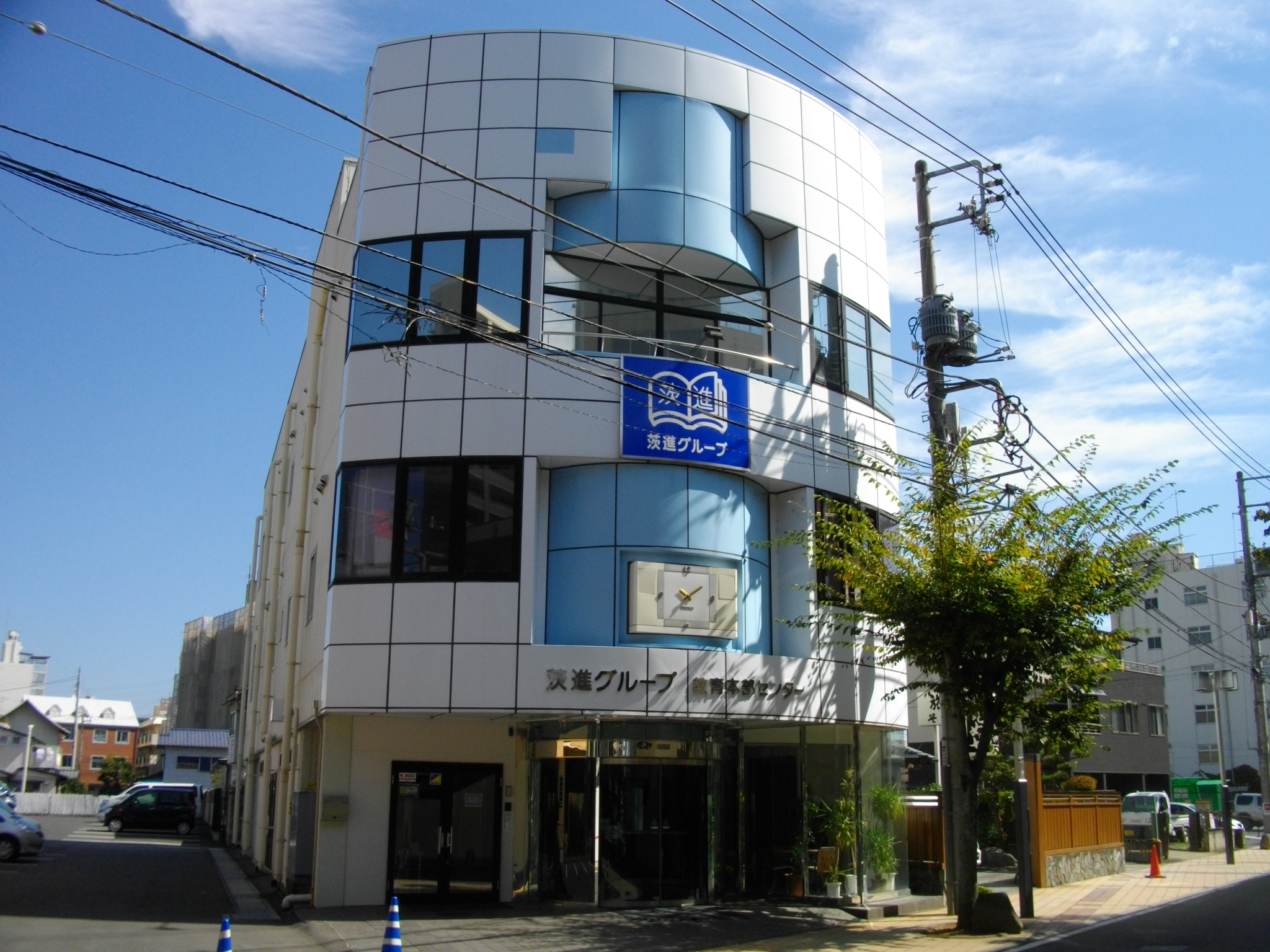 Ibashin Group Headquarters